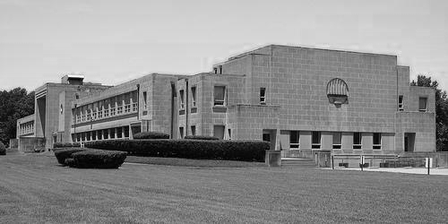 Old Baron Hirsch Synagogue looking northwest from corner of Vollintine Ave.